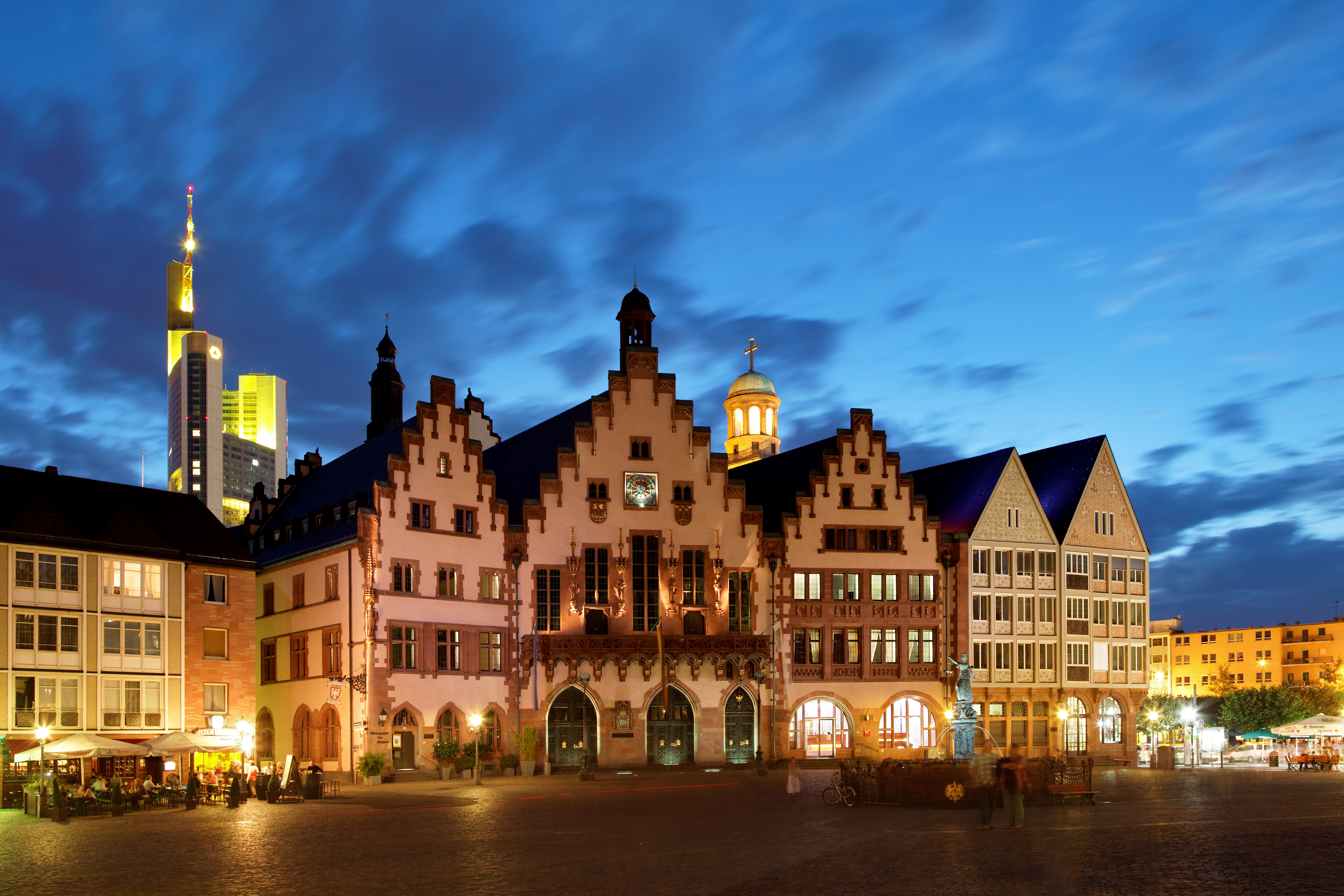 Römer (city hall) in Frankfurt am Main, Germany